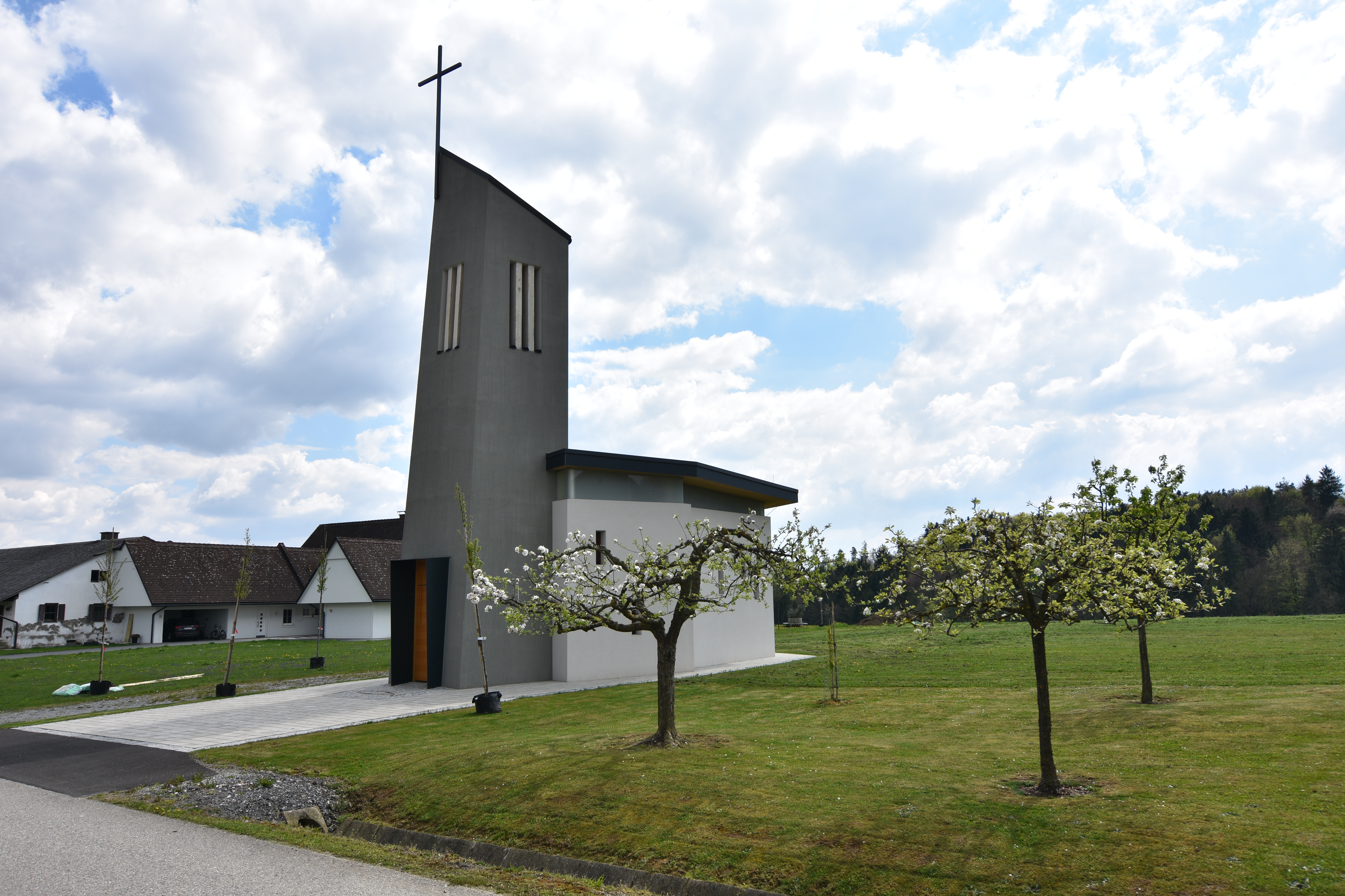 Chapel Manning